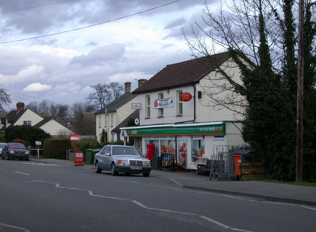 Harston Post Office Part of a Londis Store